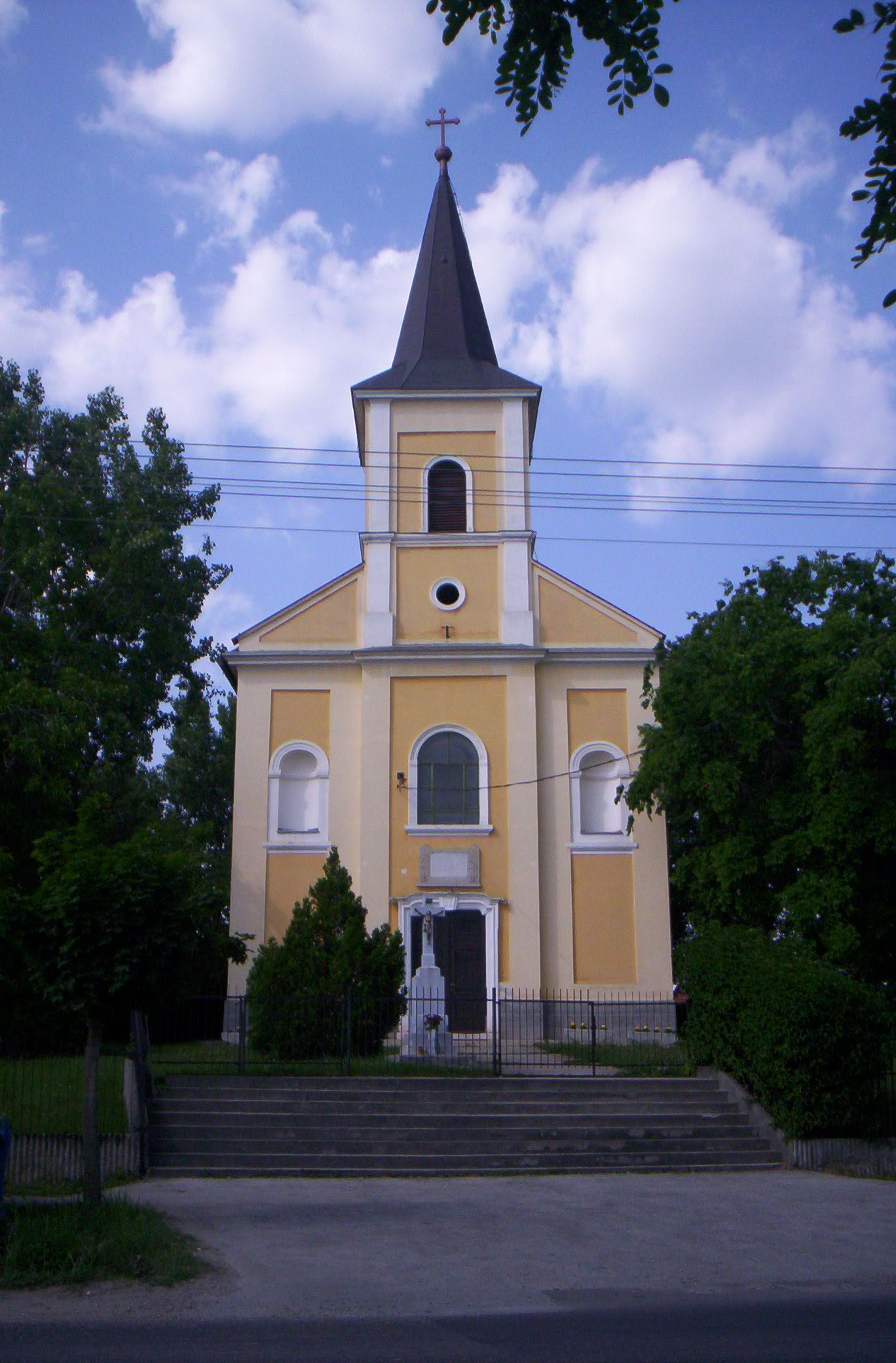 Church of Ecser This is a photo of a monument in Hungary. Identifier: 7011